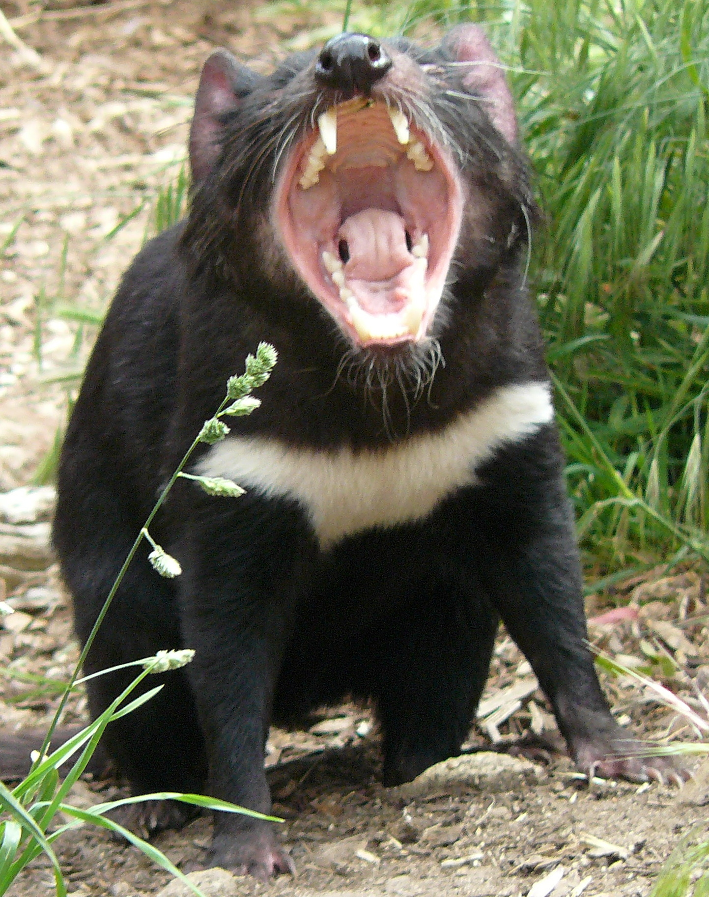 Photographed at Cleland Wildlife Reserve in the Adelaide Hills.